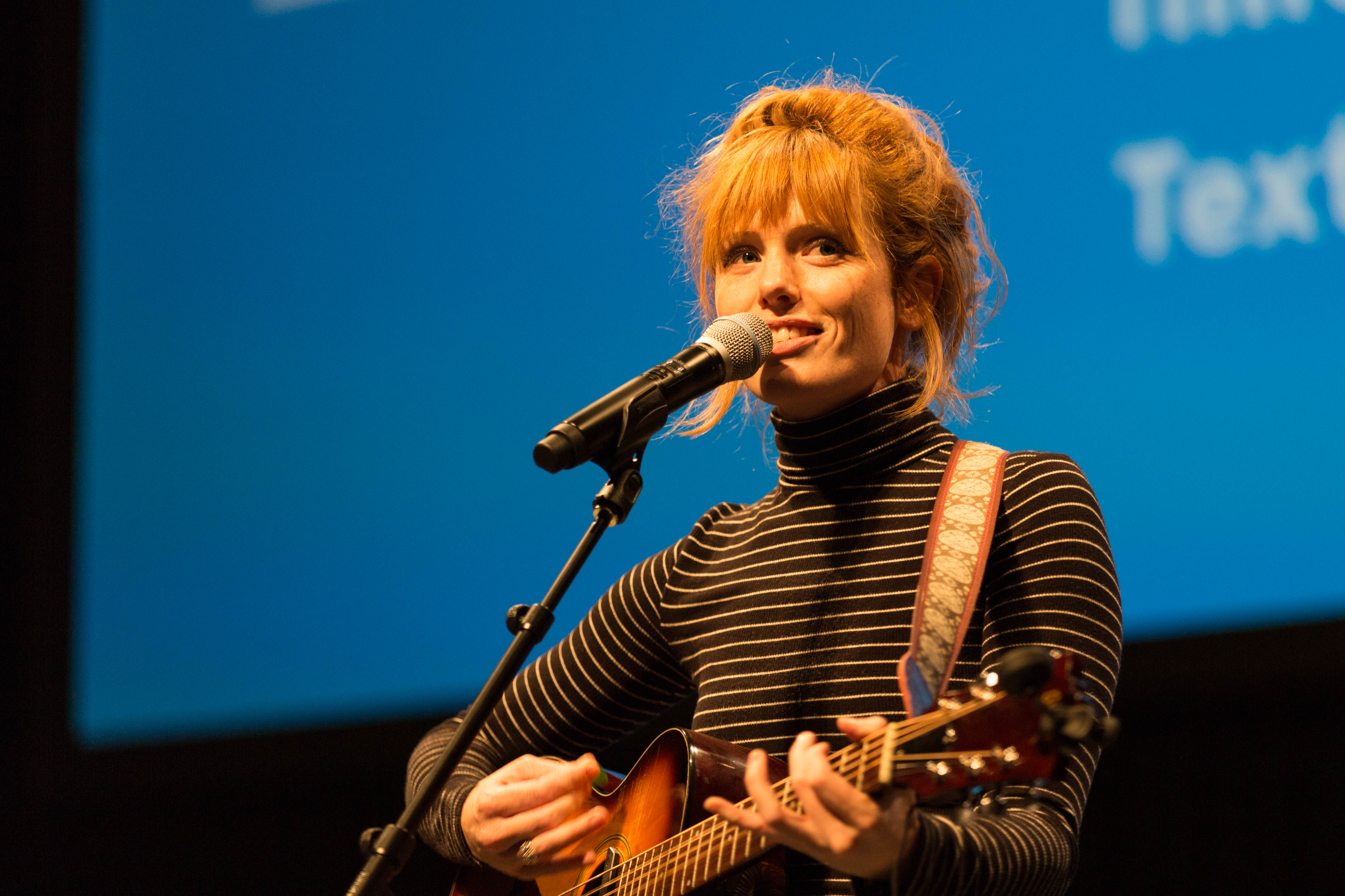 Haley Bonar performing at a Hillary for MN event at the University of MN